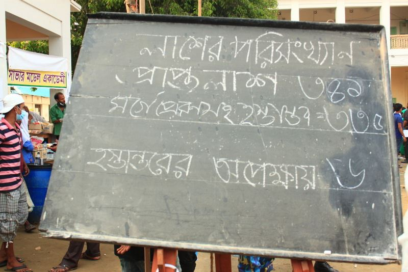 2013 Savar building collapse. Board containing the death toll. (341 dead at that time) Photos taken by Sharat Chowdhury, permission obtained from him for use in Wikipedia under CC attribution.